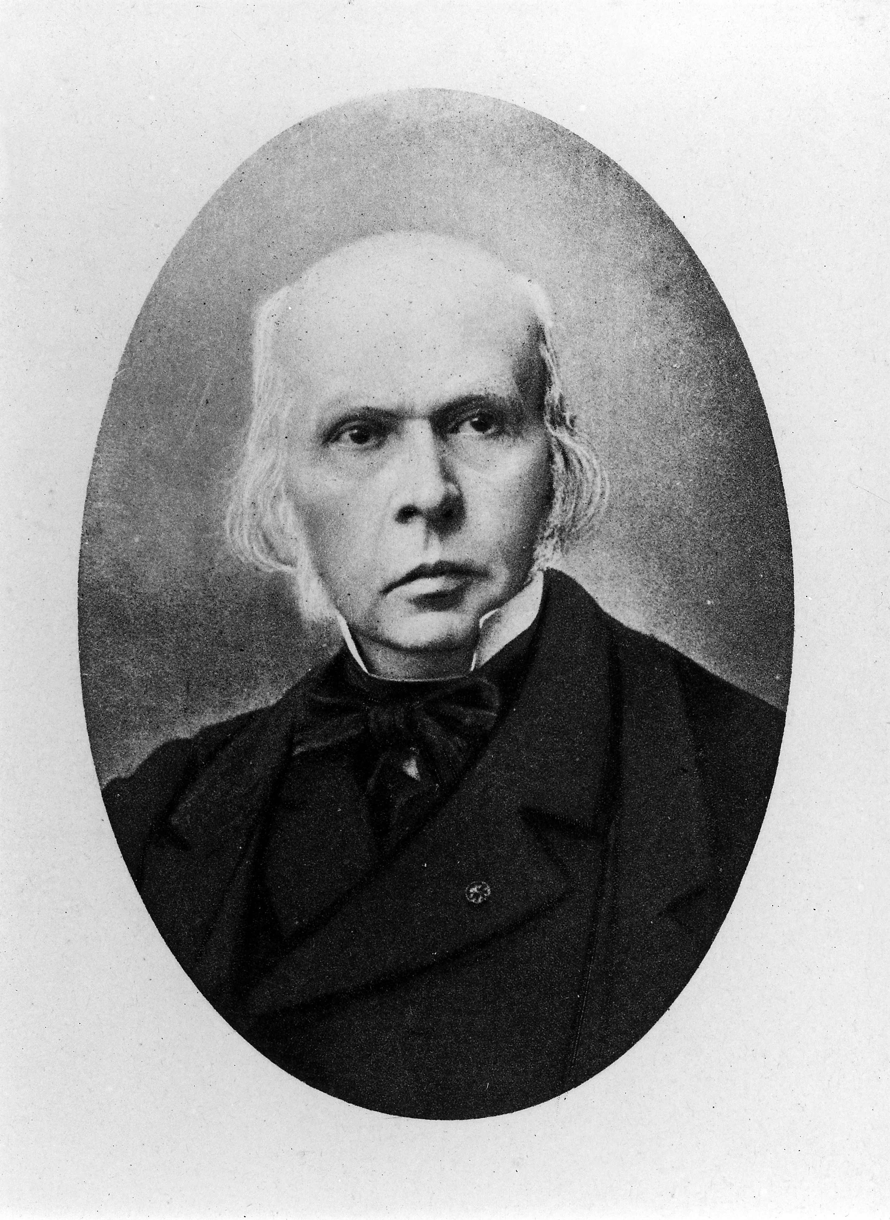 Portrait of Jules G.F. Baillarger, after photograph from life. Iconographic Collections Keywords: Baillarger